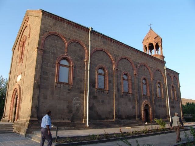 Oshakan, Surb Mesrop Mashtoz church